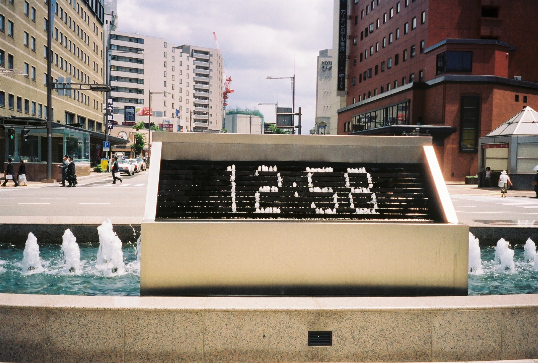 Kanazawa Station -- water clock Photo taken by me in July, 2006 [1]